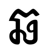 khmer letters cha